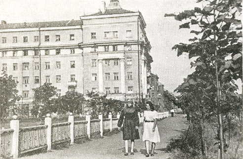 Molotov Street, Tushino